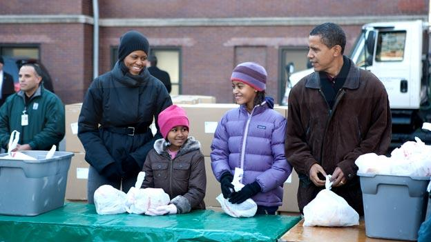 The Obama family performing community service, from one of the features on the White website in January 2009. Original filename: feat_624x351_service1. See also File:White House homepage late 2009-01-20 (4-A New Era).png.